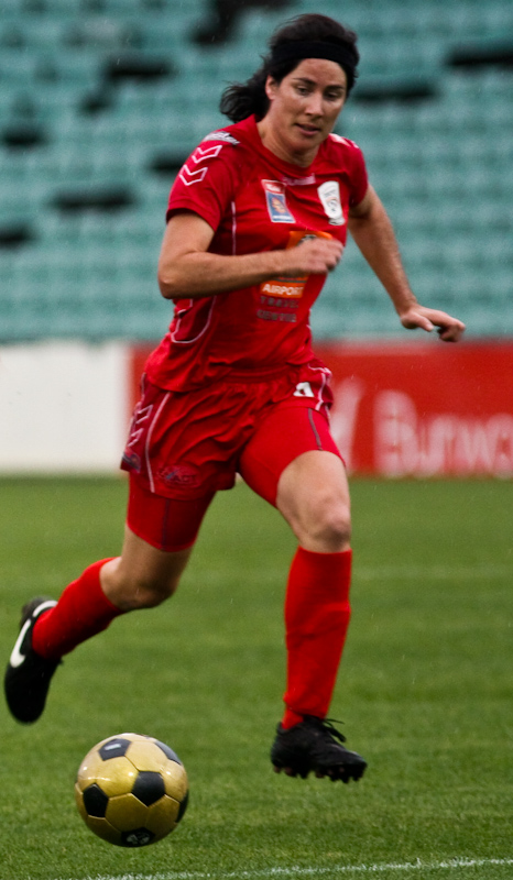 Kristyn Swaffer playing for Adelaide United against Sydney FC in round 10 of the 08/09 W-League.